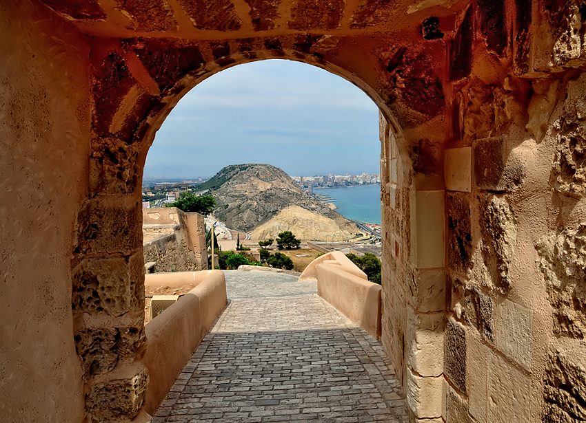 Castillo de Santa Barbara and Alicante, Spain